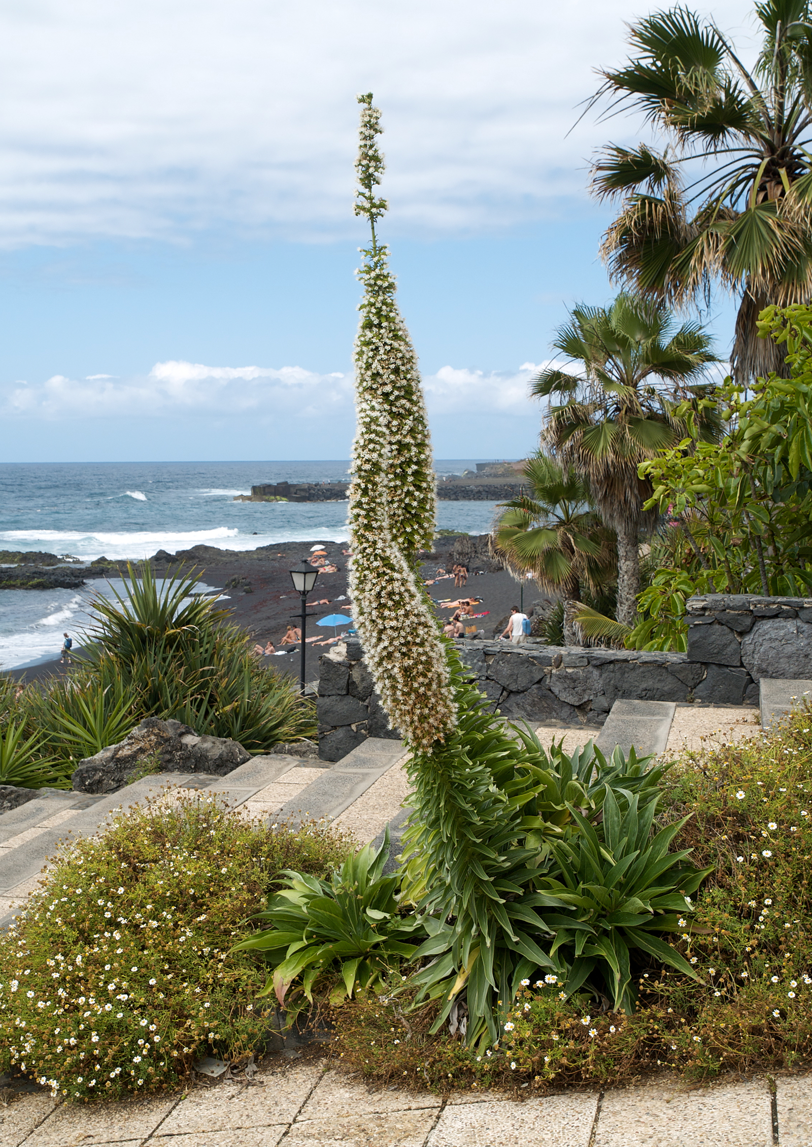 Echium simplex,Puerto de la Cruz, Tenerife, Spain